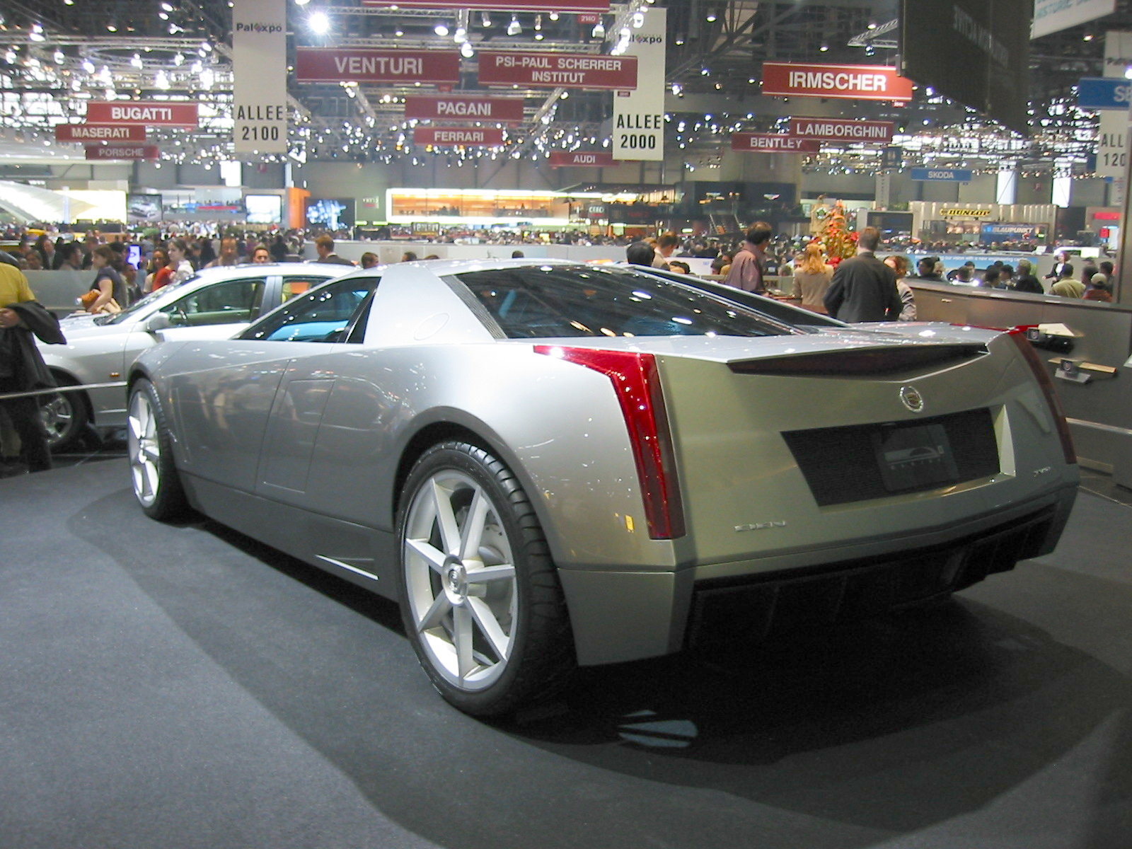 Cadillac Cien concept at the Geneva Motor Show 2002